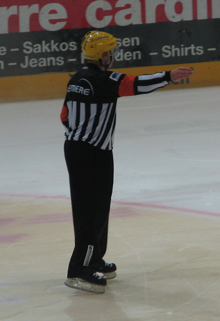 Ice Hockey Referee Rick Looker (DEL)